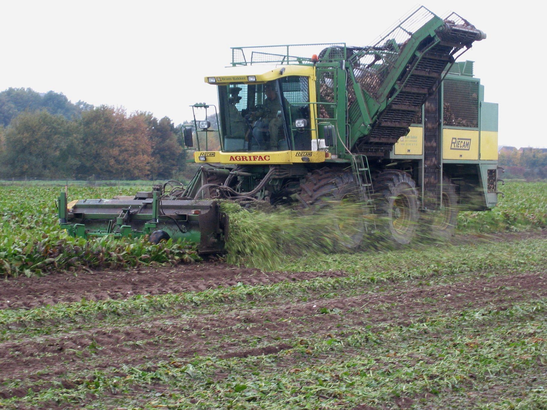 Six row Agrifac sugarbeet harvester